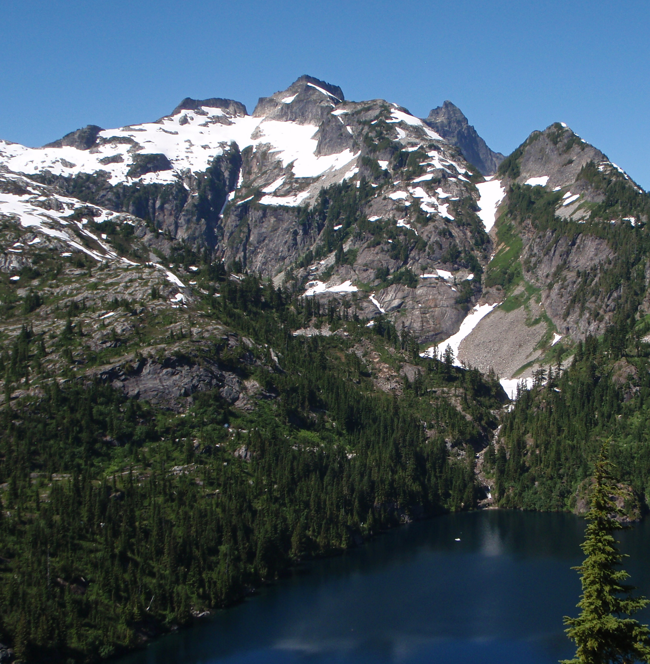 Thornton Peak and lake. North Cascades National Park